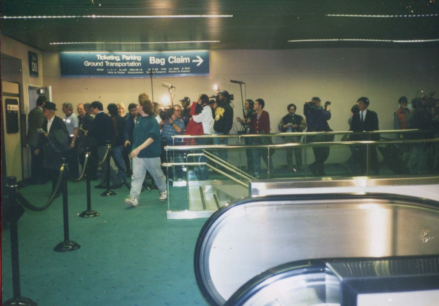 The media ("Paparazzi") chasing Tonya Harding upon her return from the 1994 Olympics.